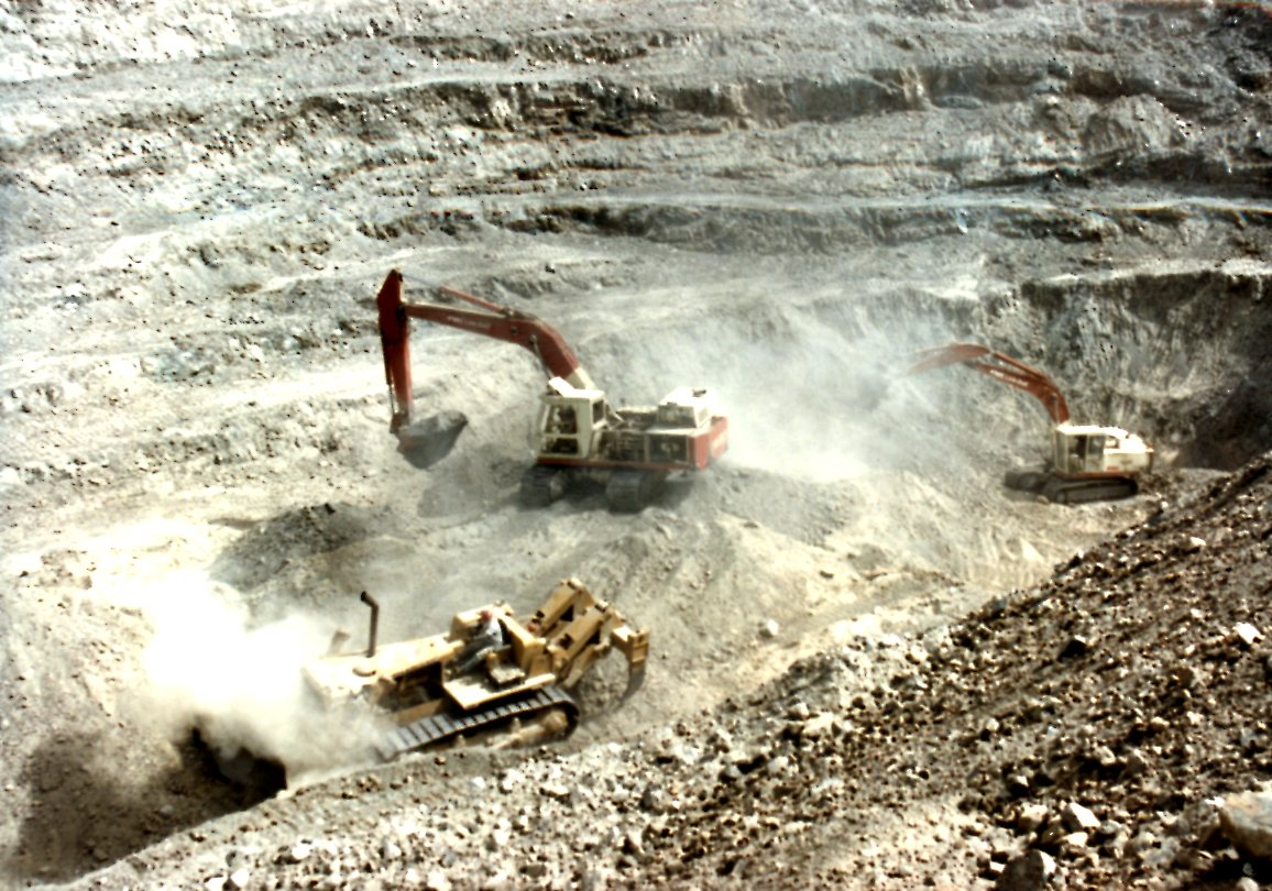 Gowal Strip Mining